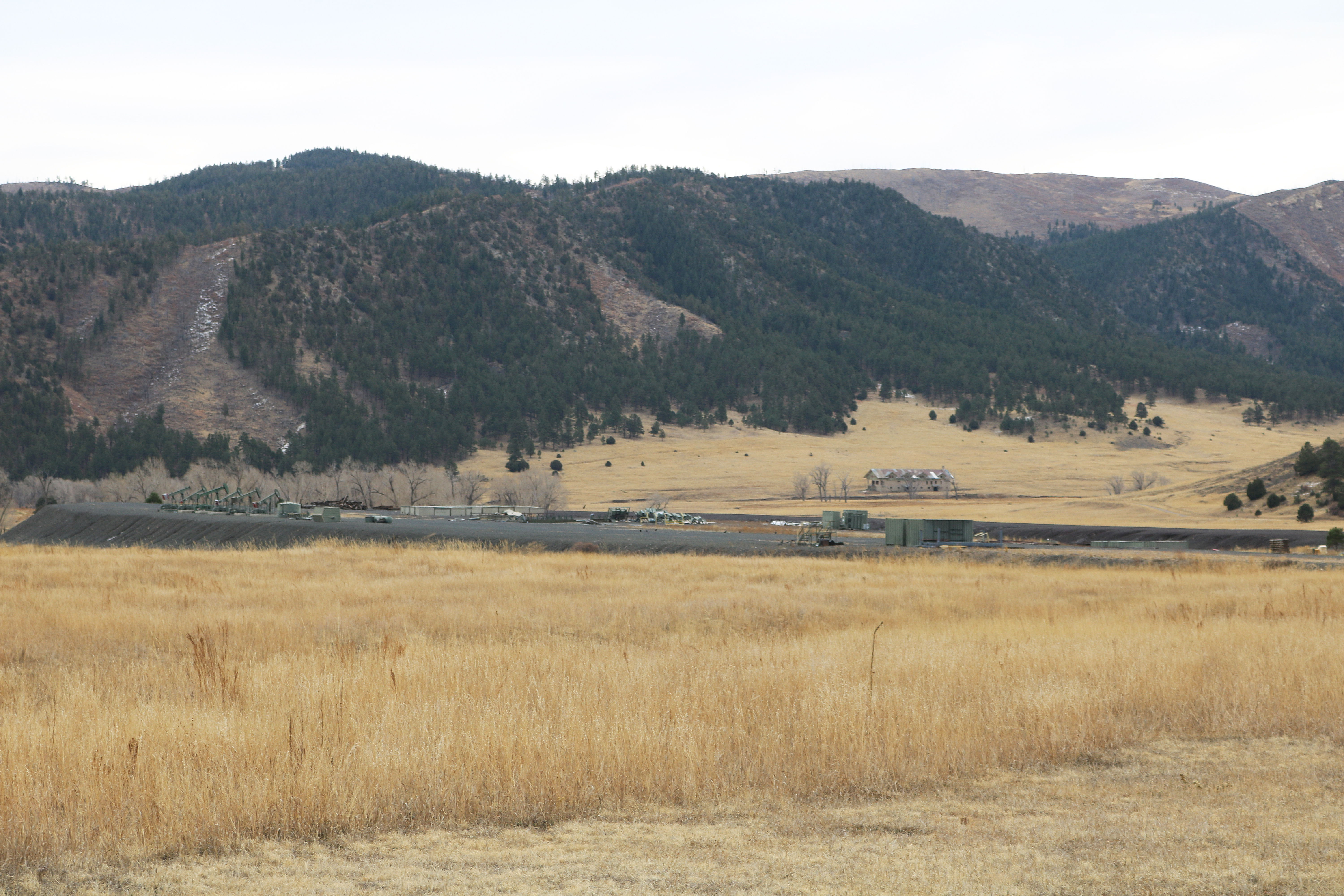 A view of the ghost town of Tercio, Colorado in Las Animas County. The land in the picture was once within the Maxwell Land Grant.